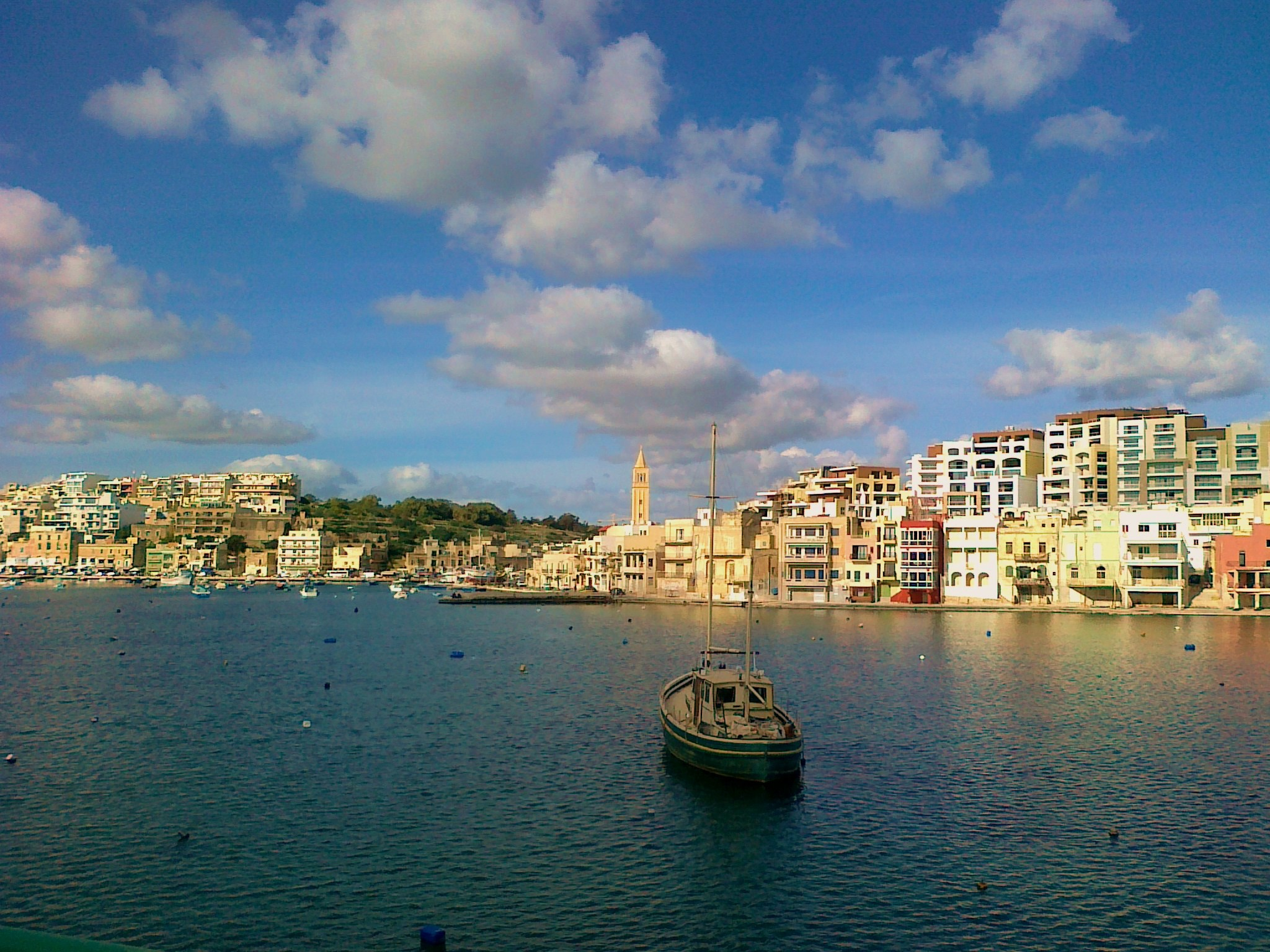 Marsascala bay on a sunny December day